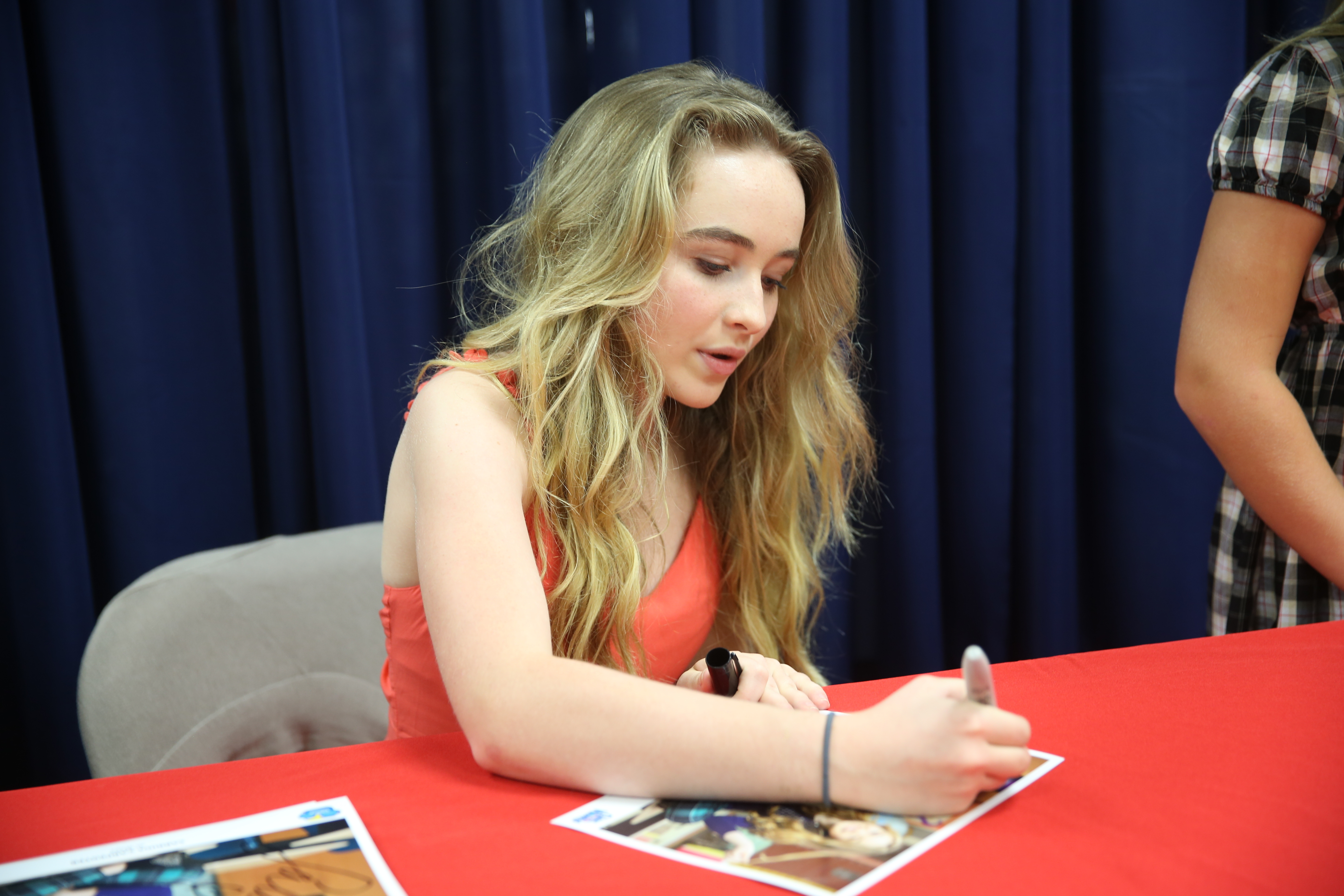 Marine Corps Air Station Cherry Point, NC - Sabrina Carpenter signs autographs for fans at Marine Corps Air Station Cherry Point, N.C., Aug. 14, 2014. Carpenter came to a back-to-school event to get families excited about the start of the school year. Carpenter, star of the Disney Channel series "Girl Meets World," was met by a line of families of active-duty and reserve service members waiting for their chance to get an autograph and snap a shot with the Disney star at the Marine Corps Exchange. "I am so excited to be here on a military base, getting to meet the families of the men and women who serve our nation every day," said Carpenter. "I know it can be hard getting back into school after summer break, but that’s why I'm here, to get the kids excited about going back to school."